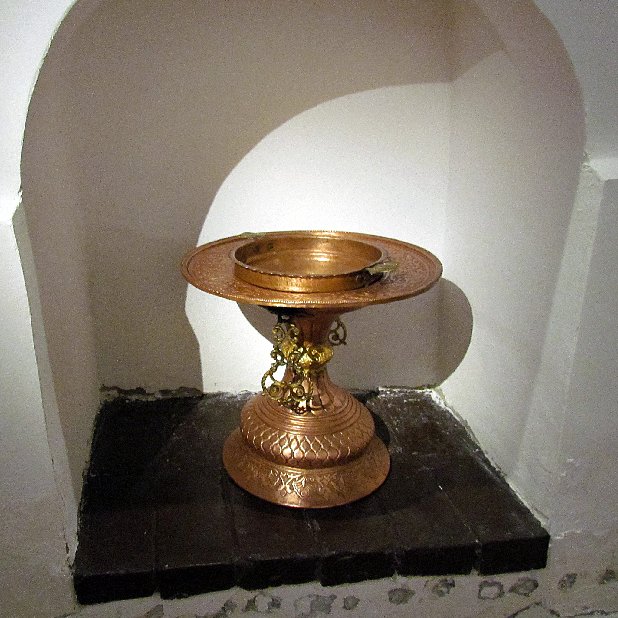 Mangal, Museum of Vuk and Dositej